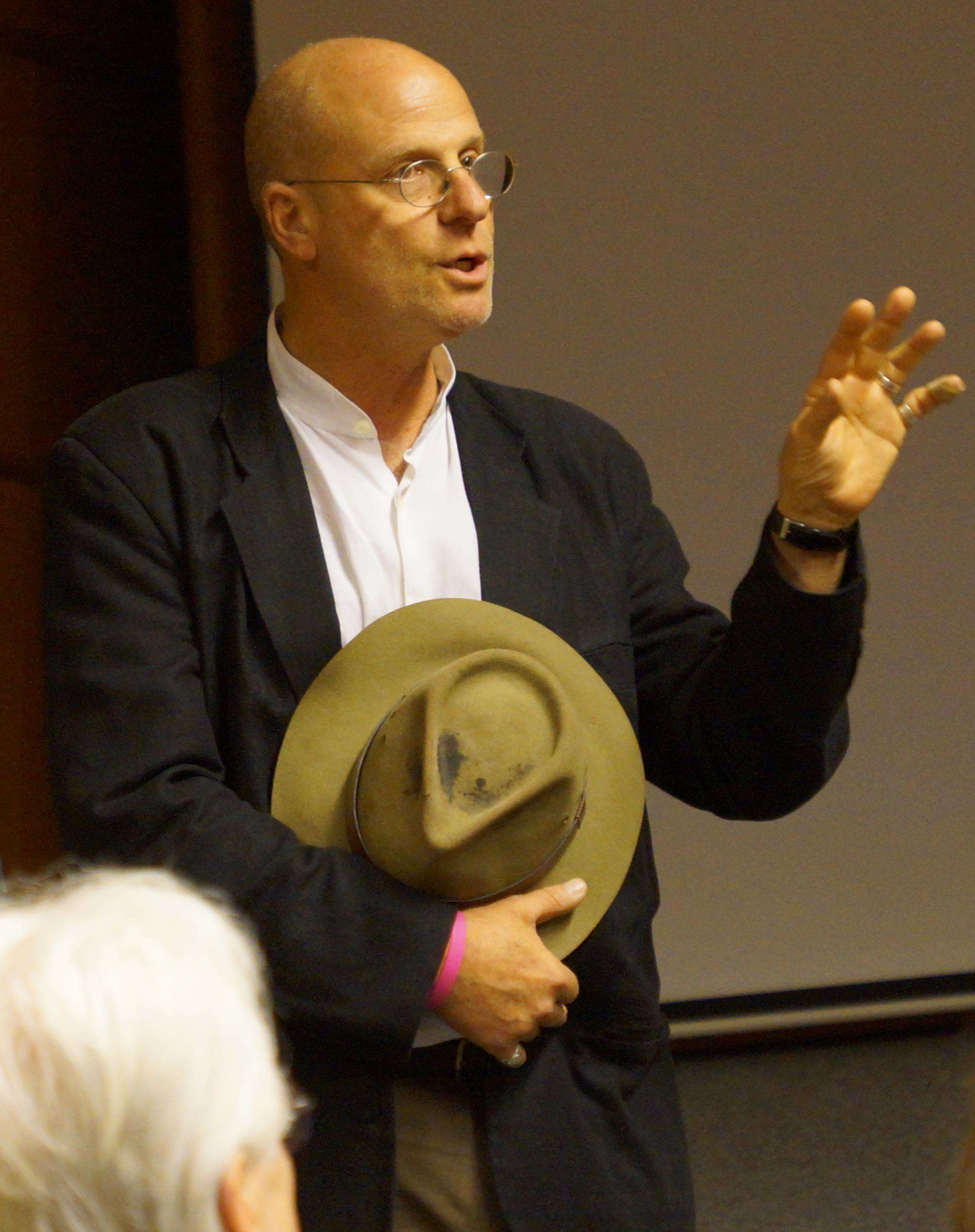 Péter Forgács at his film "Free Fall" public screening at the Central European University on 25 June 2013. Interestingly, the white head on the left is that of Bill Nichols, the editor of the book "Cinema's Alchemist: The Films of Peter Forgacs"